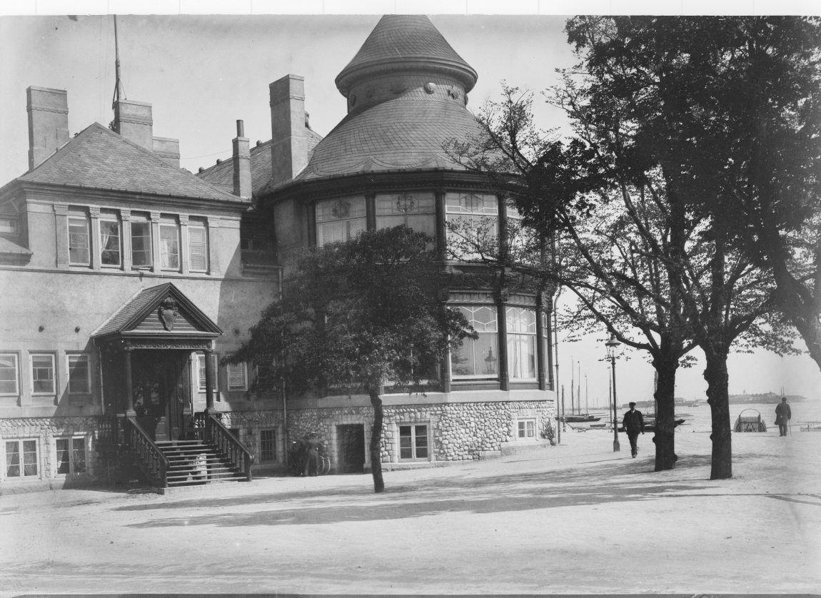 The second Langelinie Pavilion in Copenhagen, Denmark